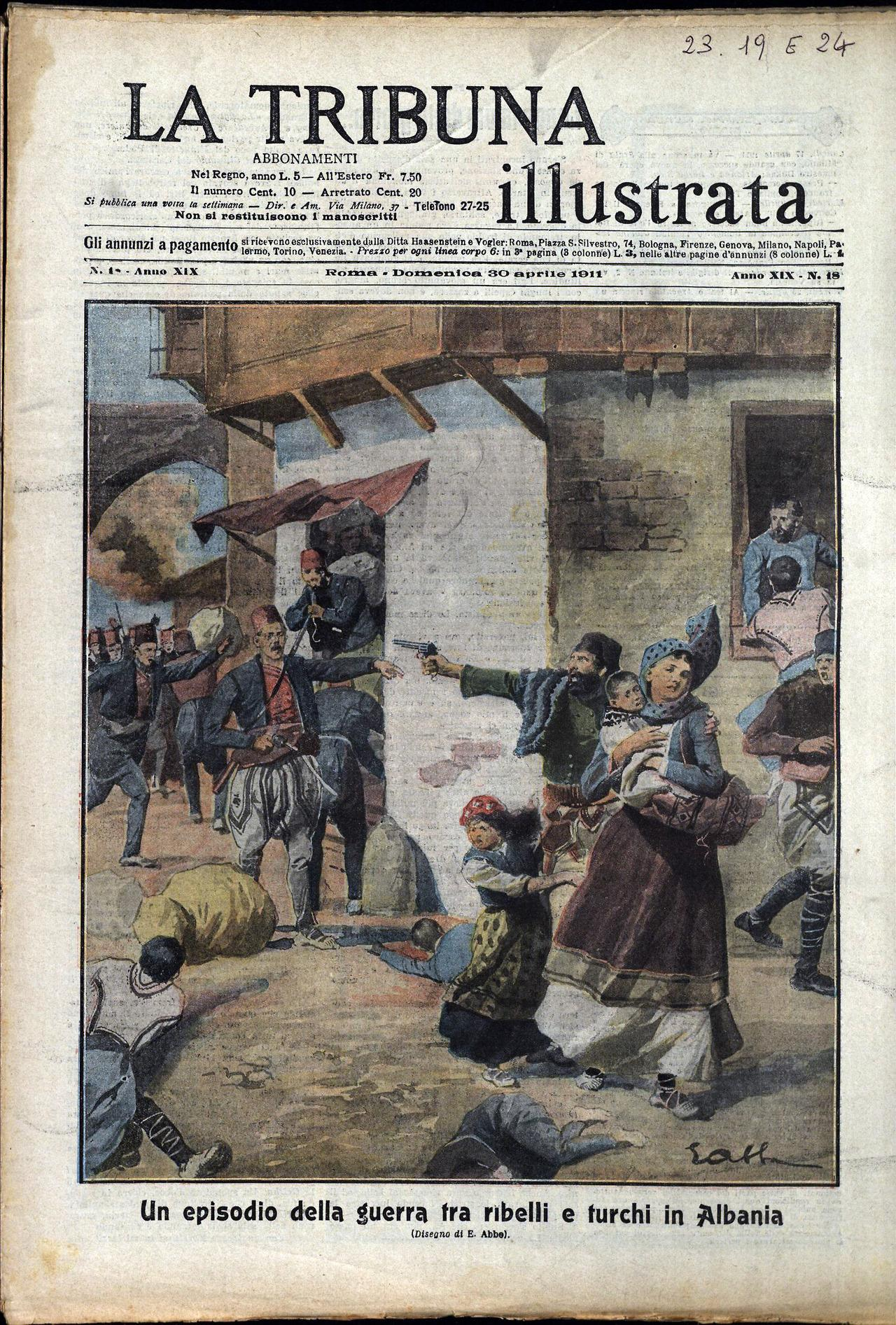 Depiction of the revolt by the Illustrated Tribune.